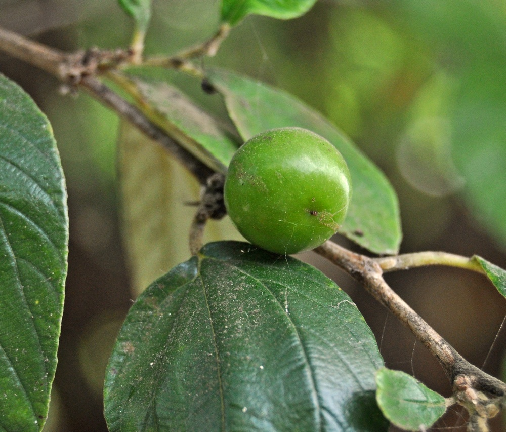 Unriped fruit of wild Ziziphus mauritiana from North Lombok, Nusa Tenggara, Indonesia